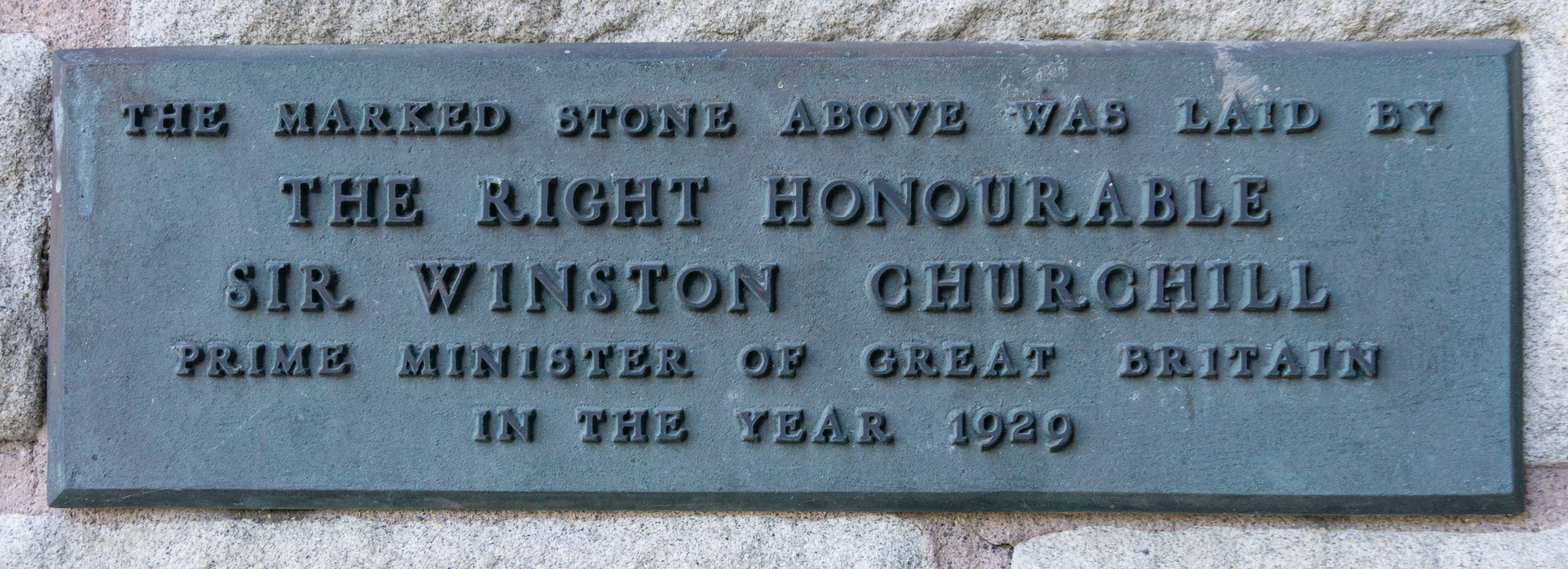 Plaque by the main entrance, Christ Church Cathedral in Victoria, British Columbia, Canada